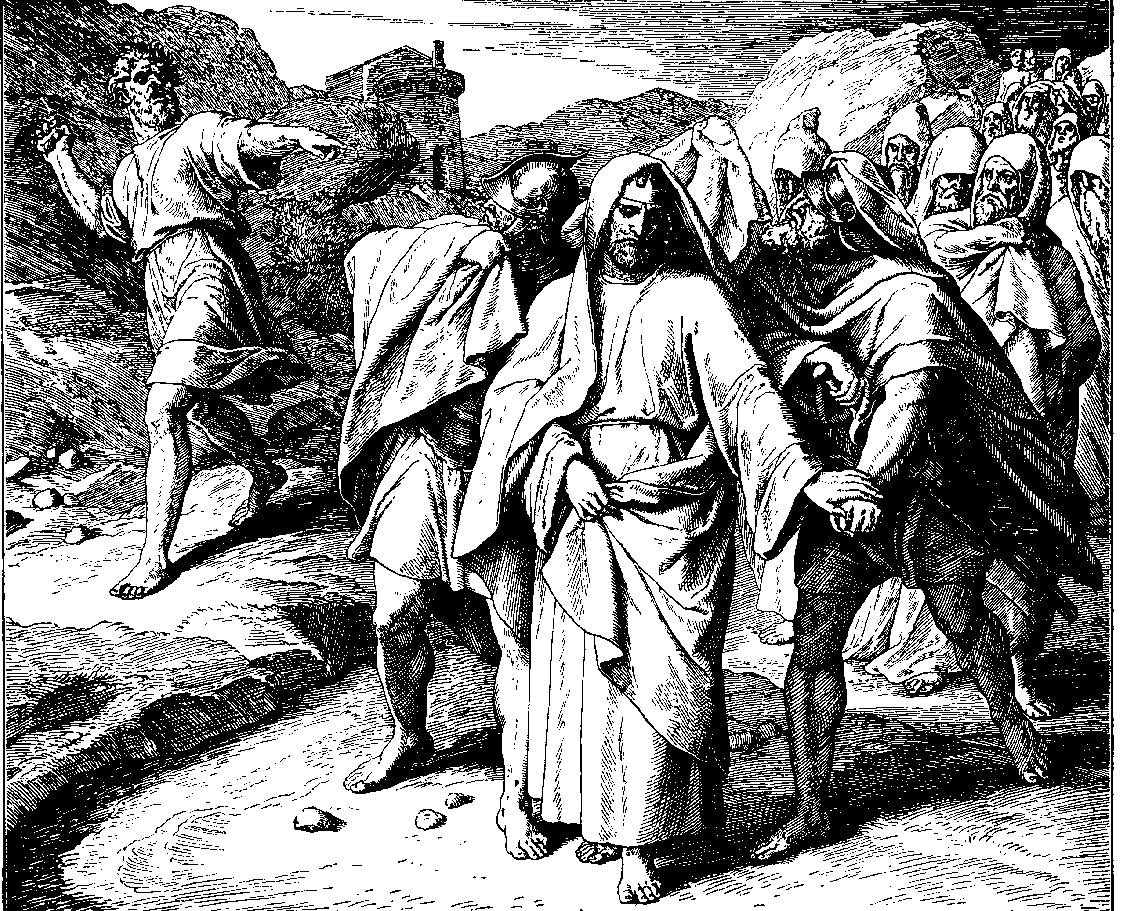 Woodcut for "Die Bibel in Bildern", 1860.